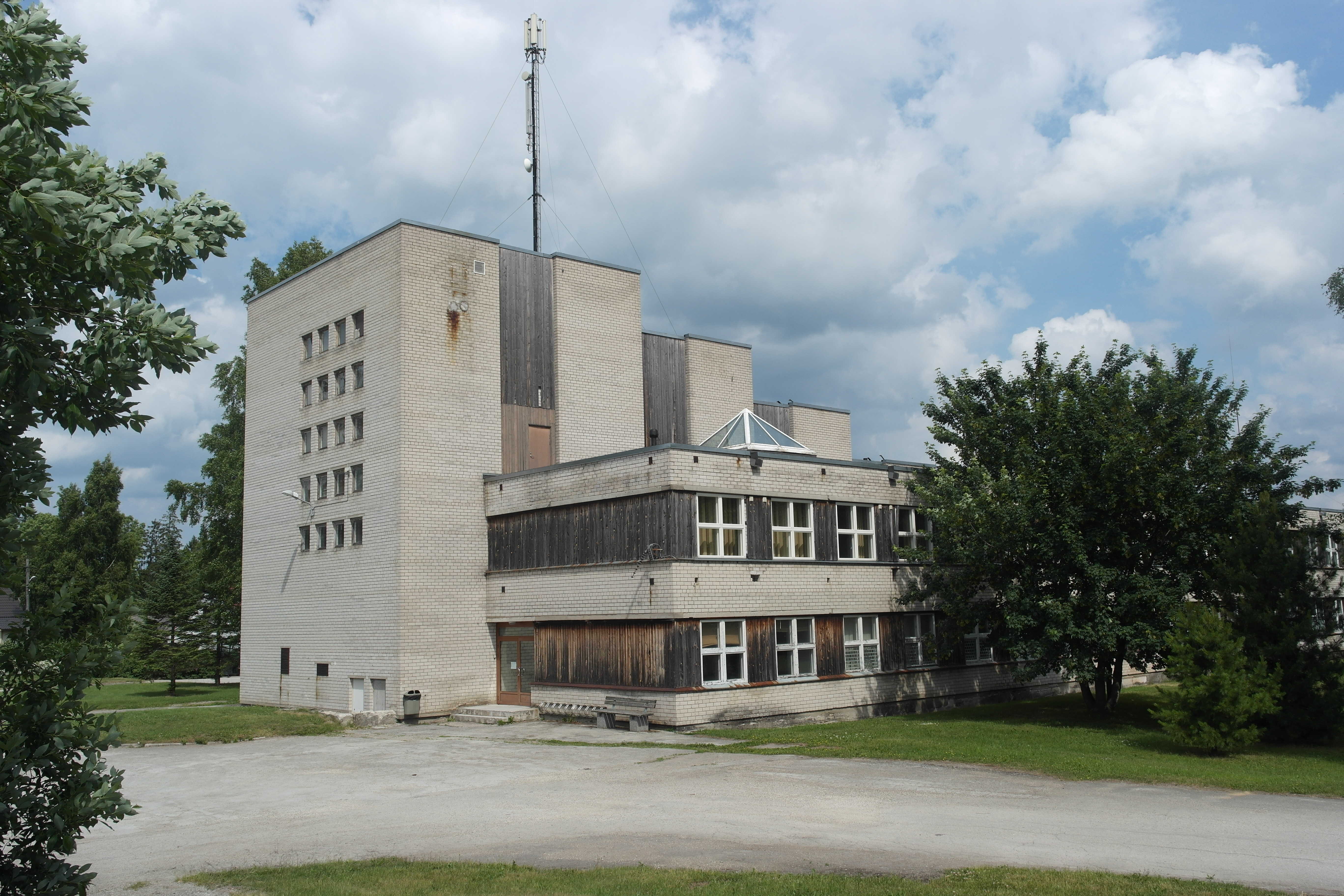 Aruküla youth centre